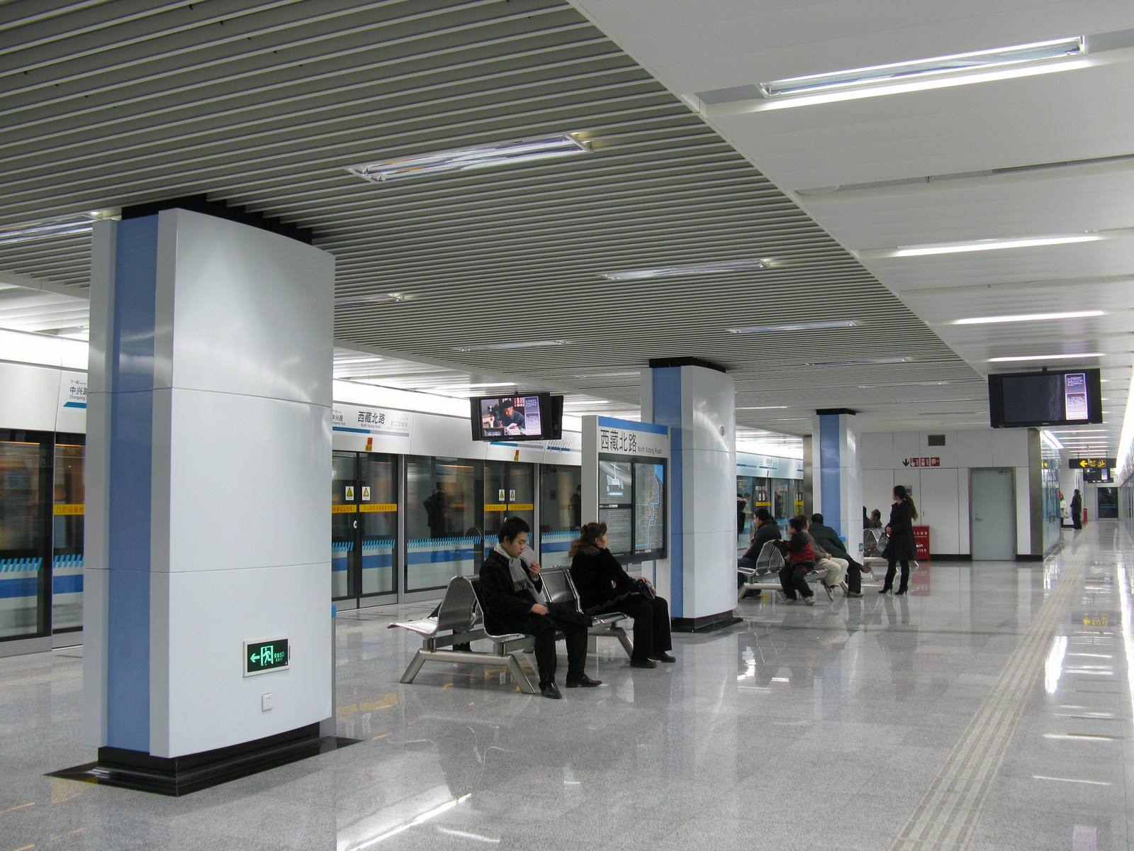 Line 8 Platform of North Xizang Road Station